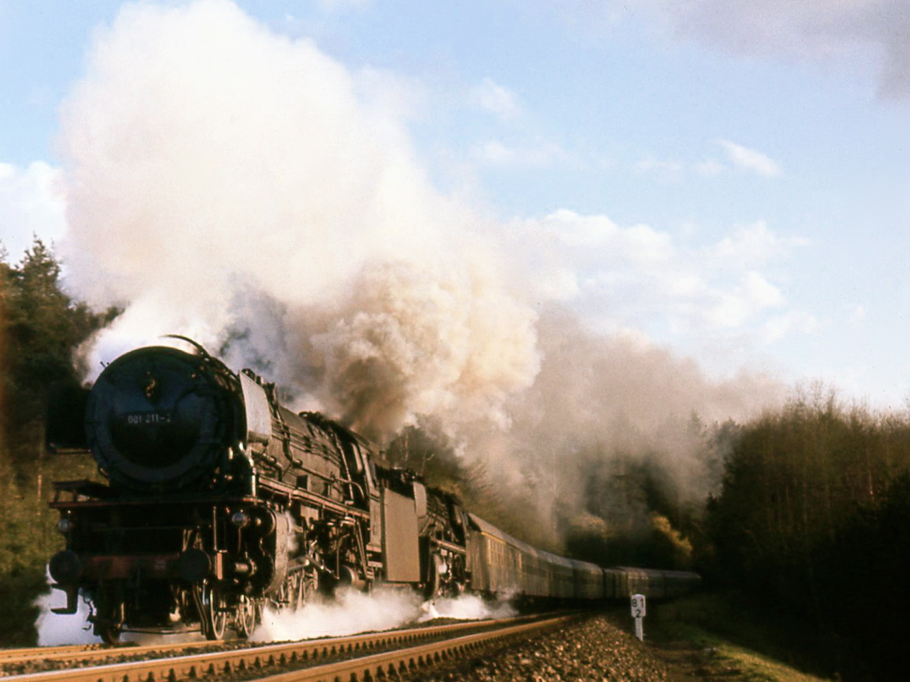 001 211-2 pacifics ascend the Schiefe Ebene